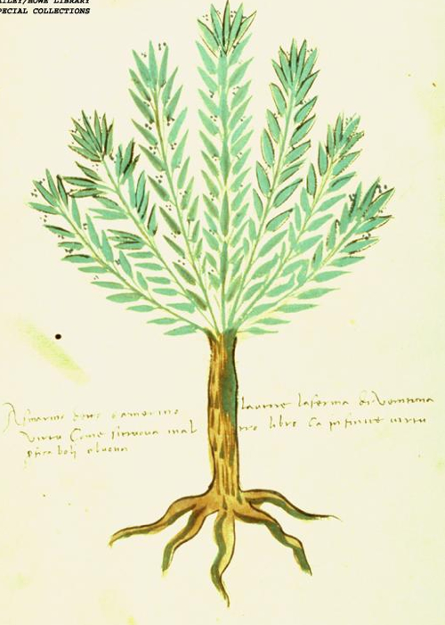 "Rosmarino" (family Lamiaceae, formerly Labiatae), probably Rosmarinum officinalis, Rosemary, a rosette-like structure of branches with opposite leaves and small axial flowers atop a thick stem, or trunk, green with a brown trunk and small blue flowers.